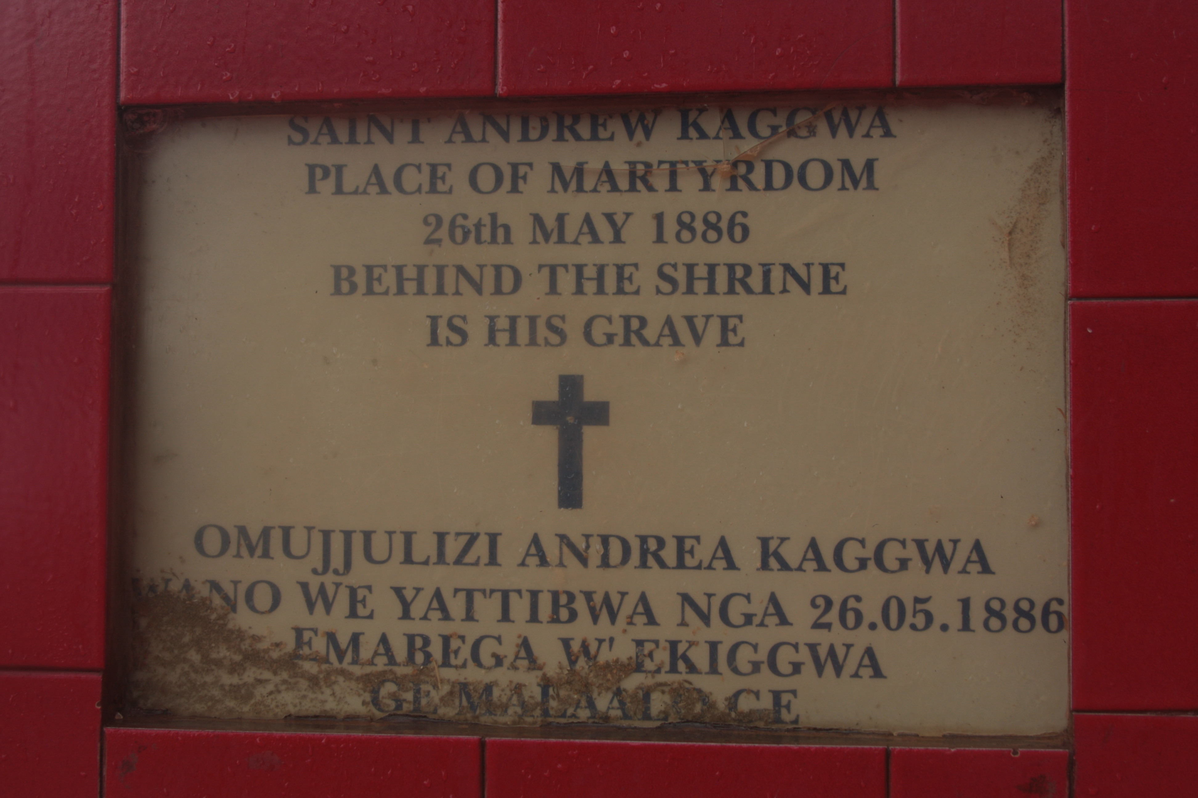 Munyonyo (Kampala-Uganda) - tomb and place of martyrdom of St. Andrew Kaggwa